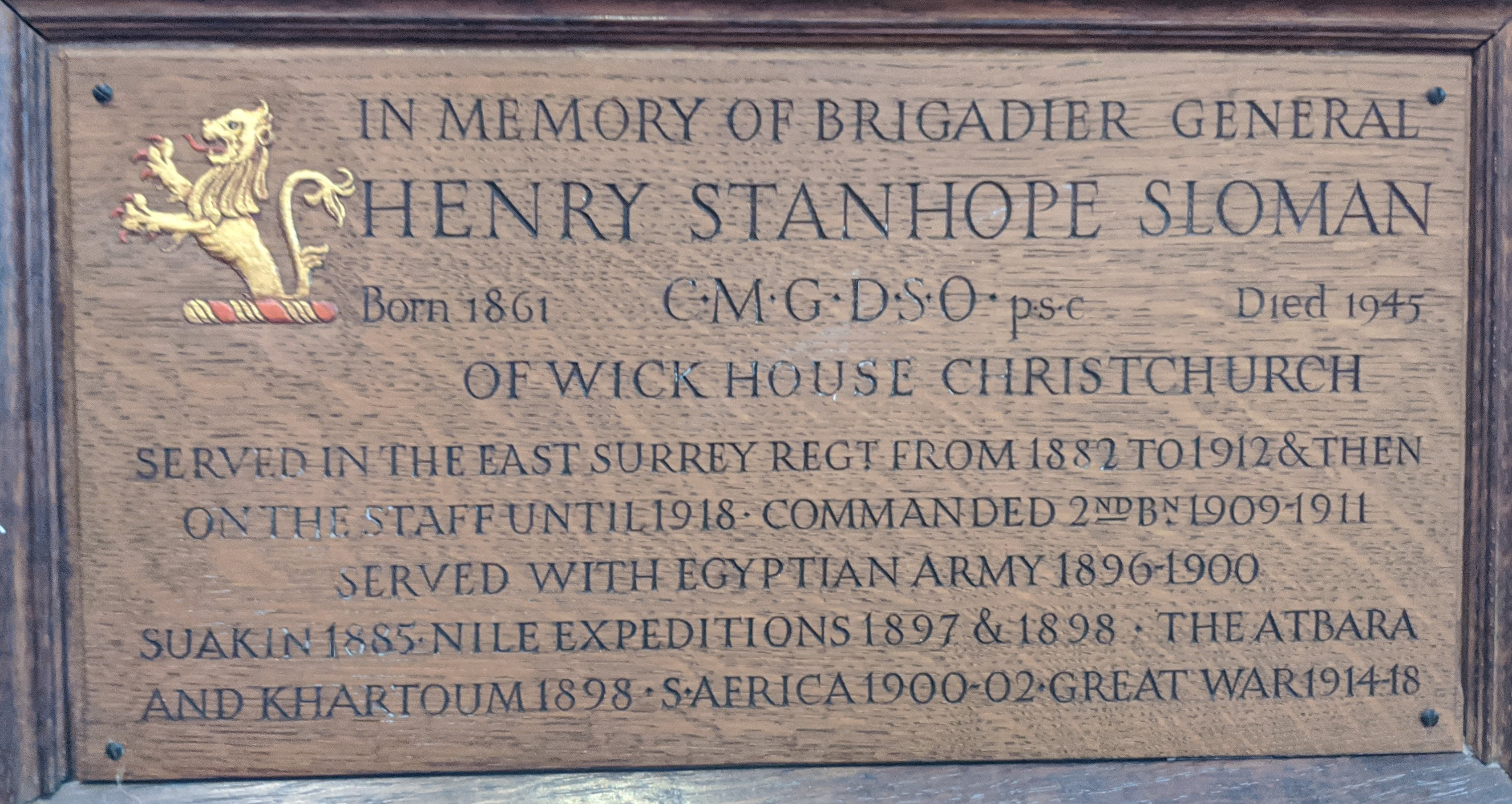 Memorial plaque to Brigadier General Henry Stanhope Sloman in East Surrey Regiment chapel, All Saints Church, Kingston upon Thames, Surrey